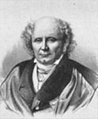 Franz Ambrosius Joseph von Spee (1781-1839), Adliger und Politiker